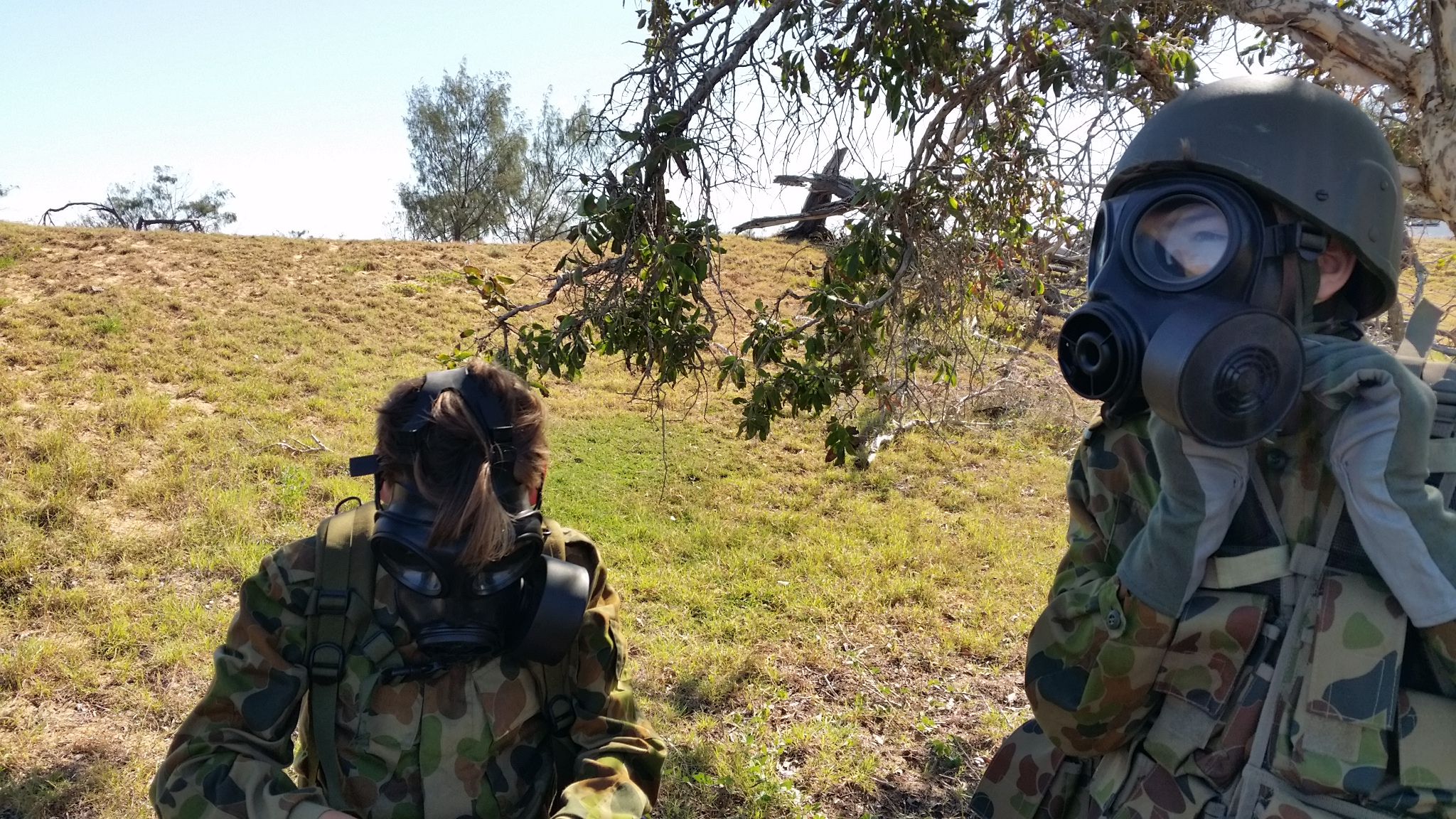 Australian Army Cadets using the Mk6 during a specialized training course